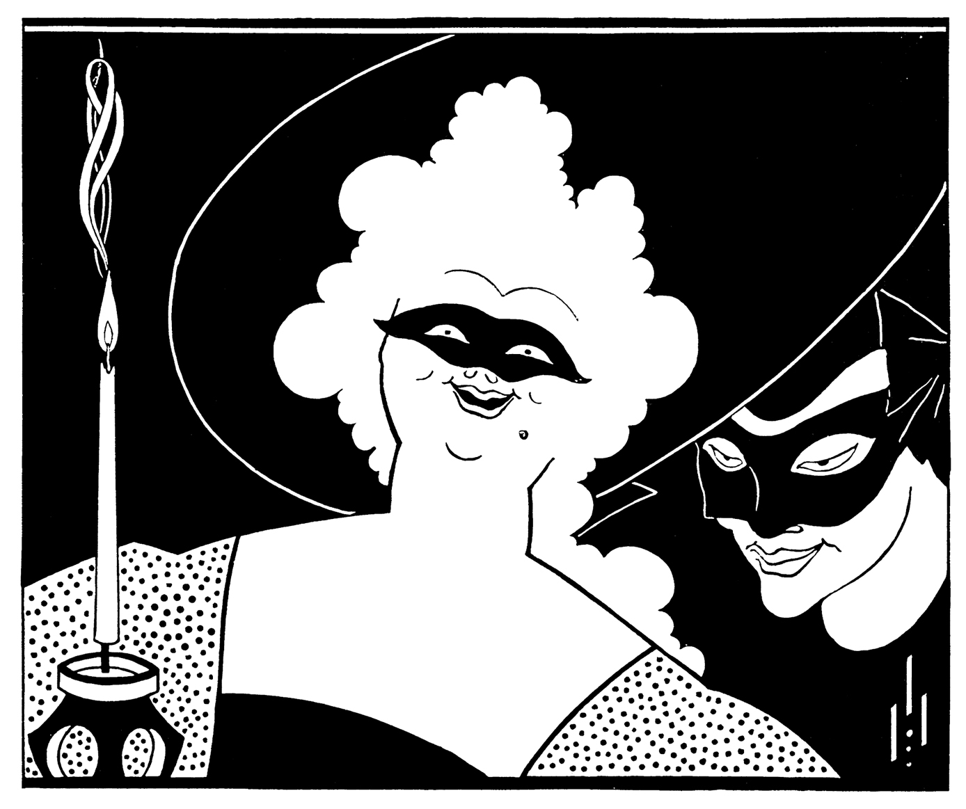 Aubrey Beardsley - Masquerade